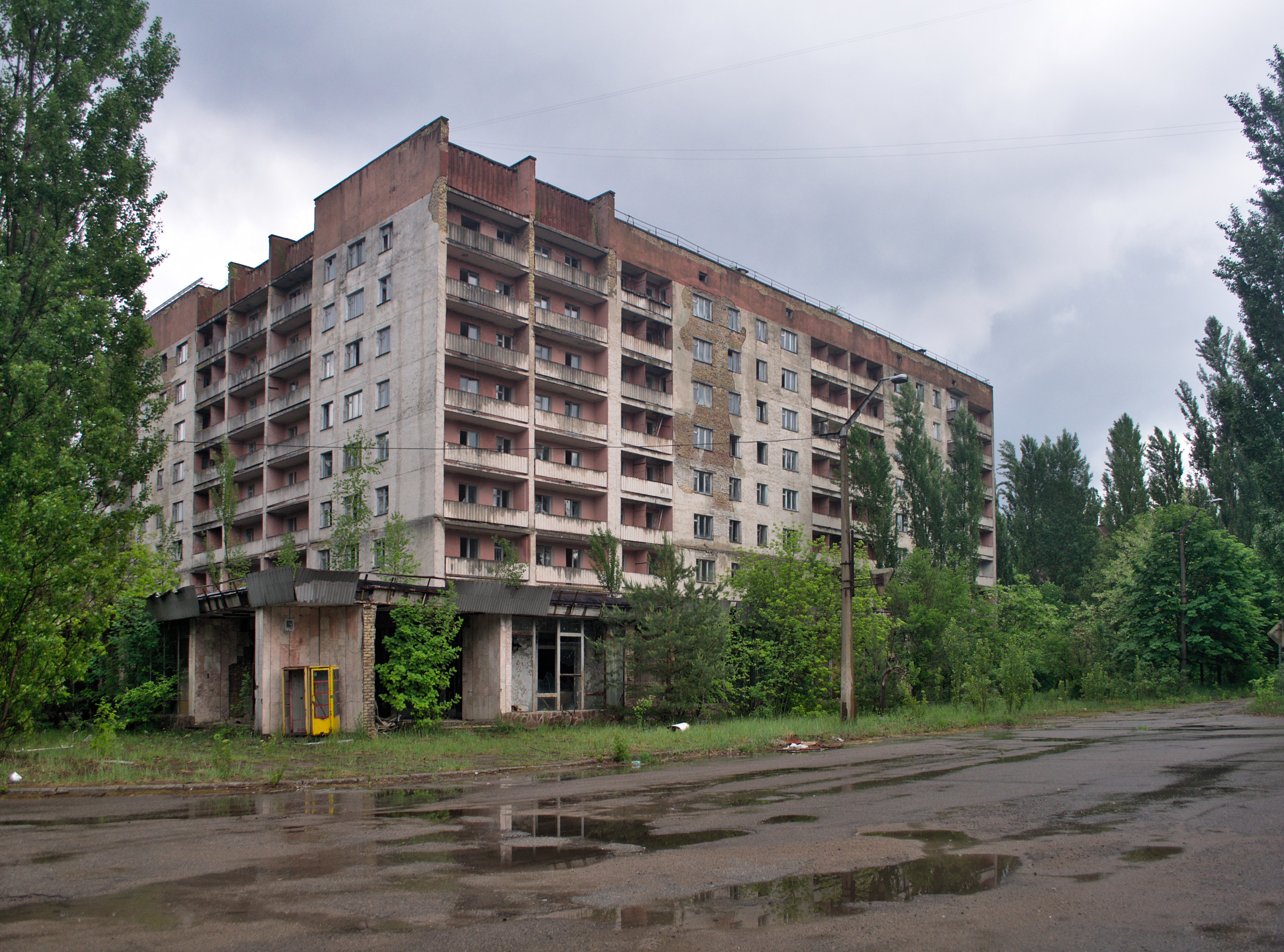 Building in Pripyat